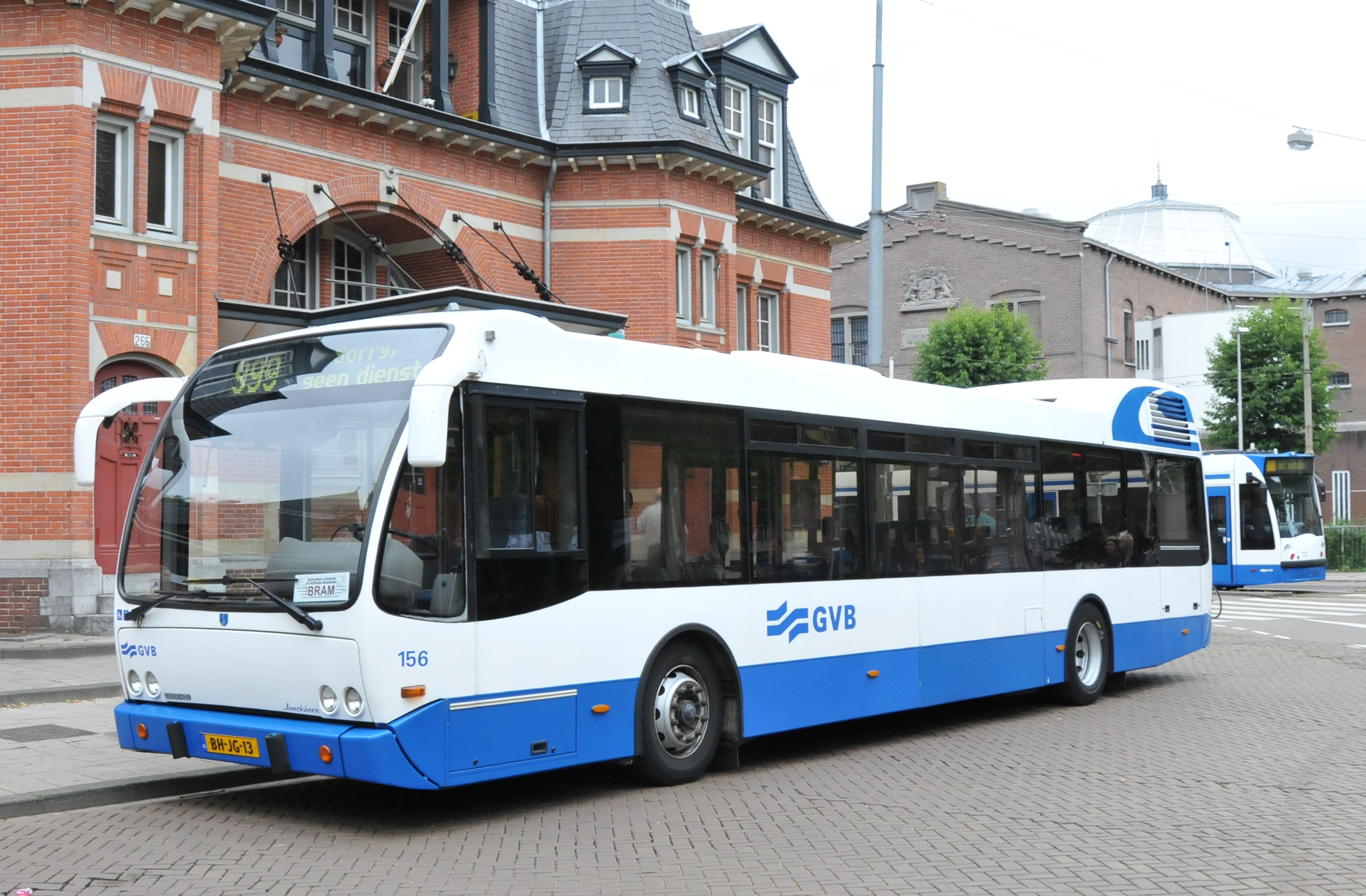 Berkhof Jonckheer 12 city bus (#156, reg. BH-JG-13) with DAF SB250 chassis in Amsterdam, Netherlands. Built 1999, Gemeentevervoerbedrijf (GVB) operator.